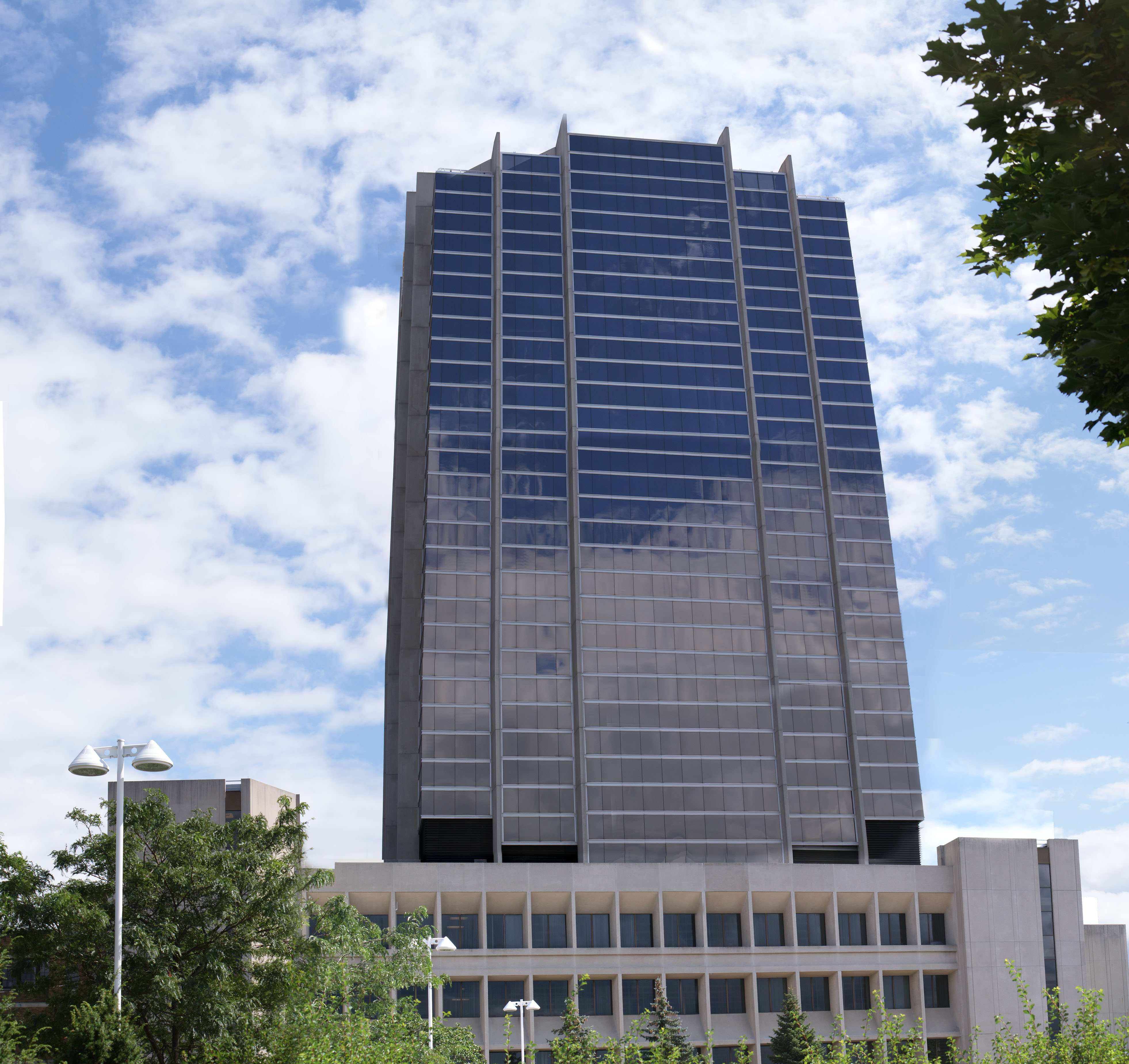 The Sun Life Financial Canadian headquarters in Waterloo, Ontario. This is a 3x3 stitched imaged.